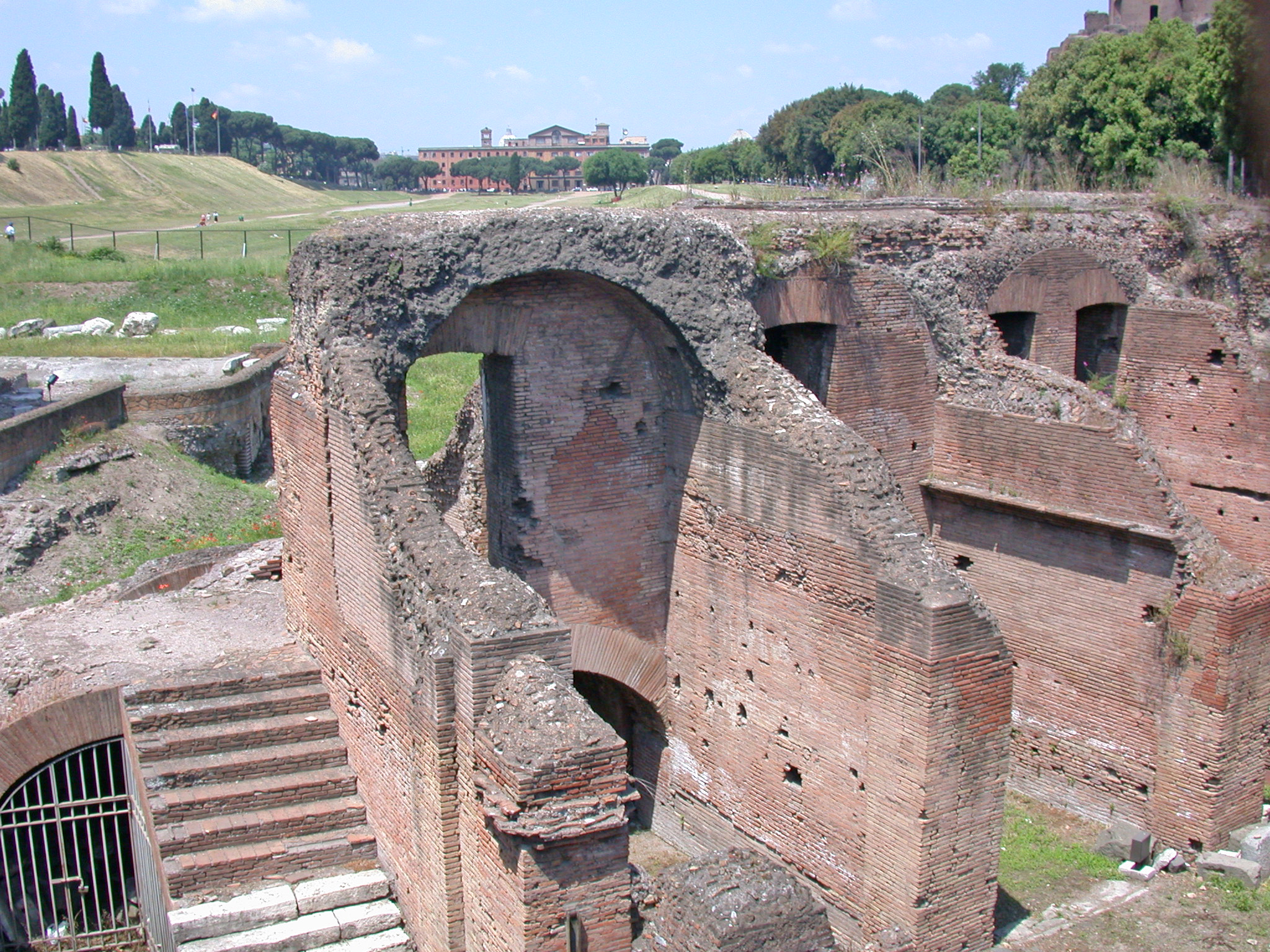 Roma, Circo Massimo, resti delle arcate all'estremità sud. Foto personale maggio 2005